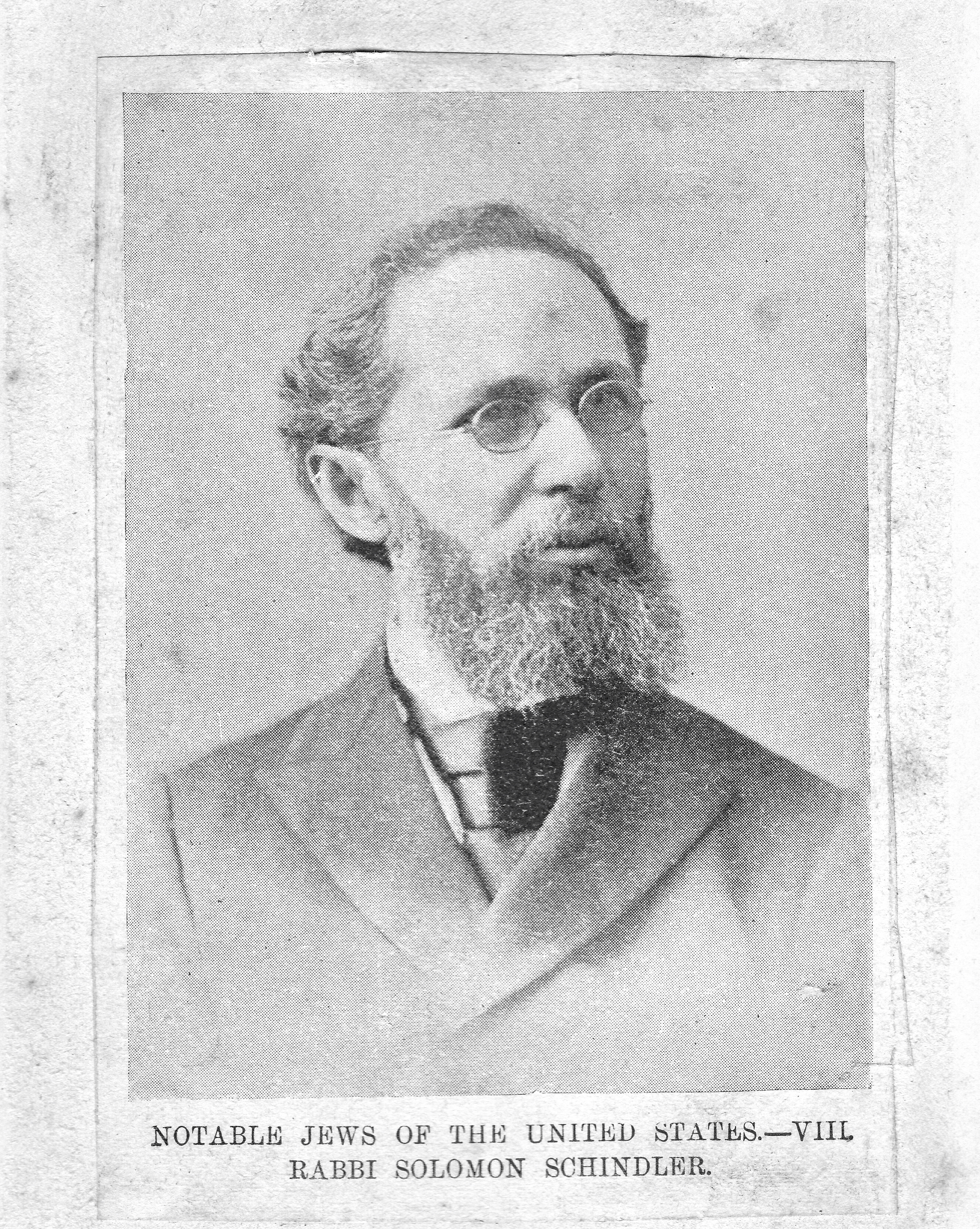 Portrait